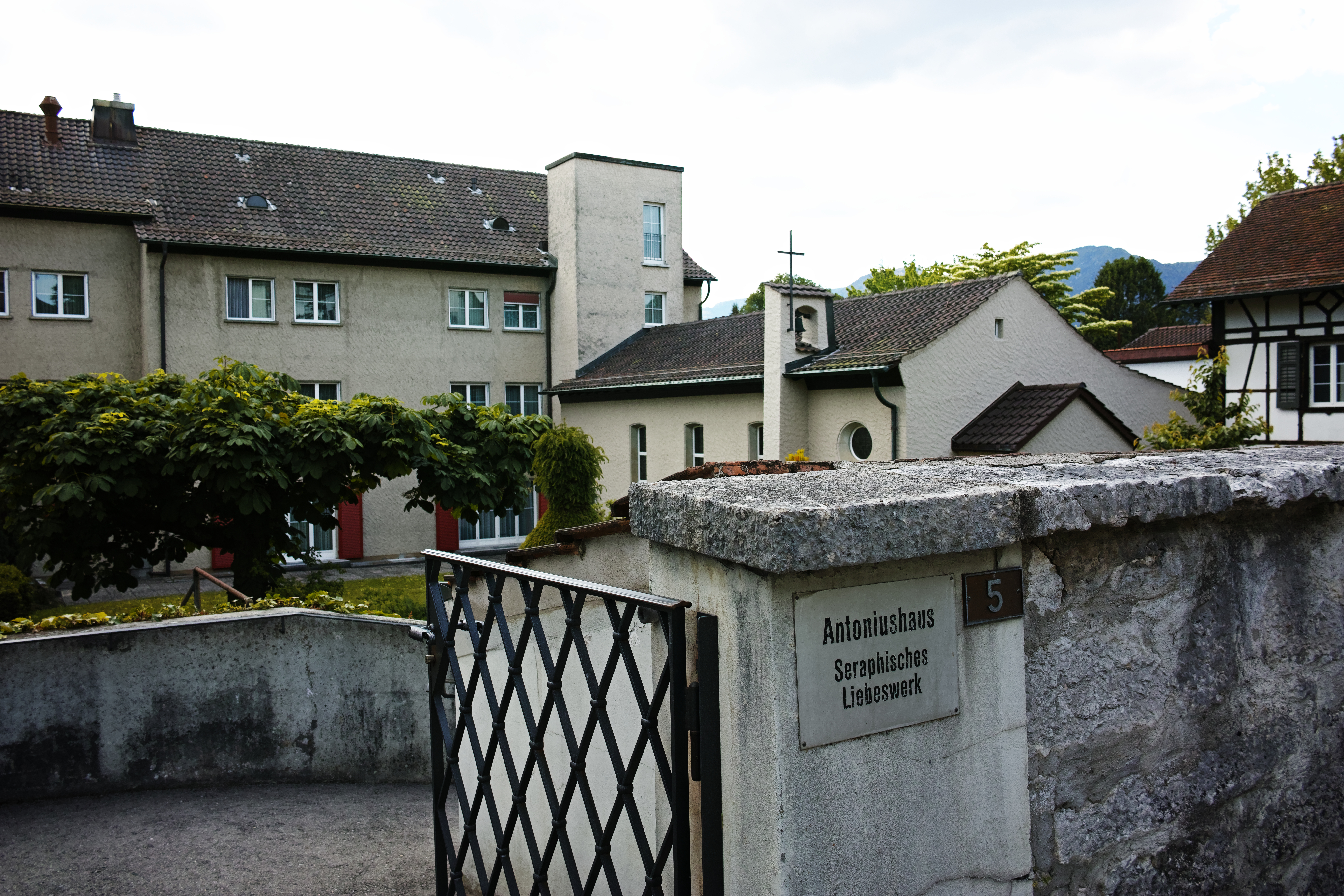 Seraphisches Liebeswerk (Seraphic Work of Charity, literally "Work of Love") in Solothurn, Switzerland. Antonius House.